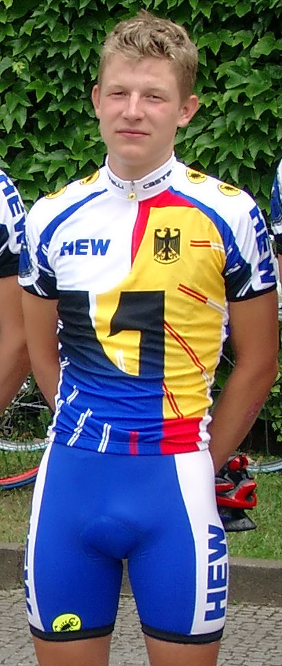 Christian Leben